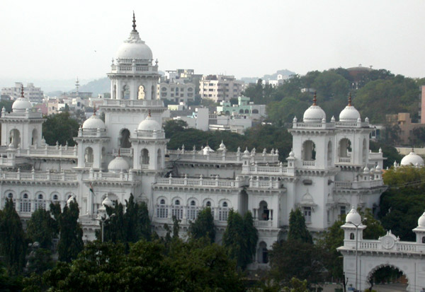 The Andhra Pradesh State Assembly building houses the bicameral Andhra Pradesh Legislature.